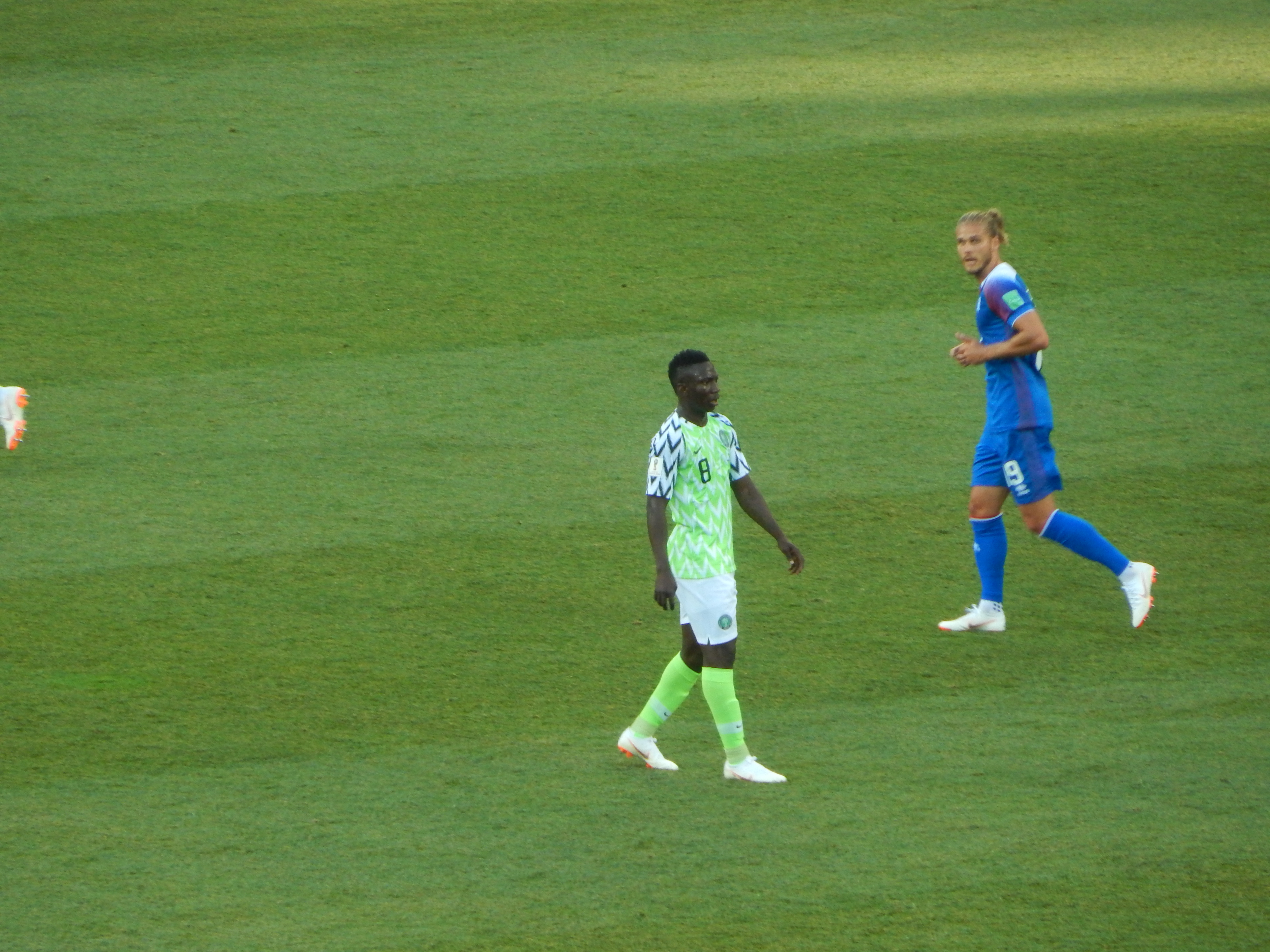 FIFA World Cup 2018, Group D, Nigeria vs. Iceland